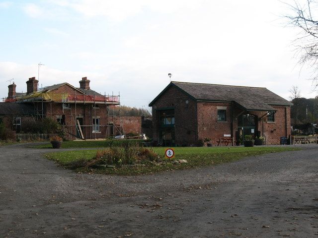 Former station site, Masham Buildings associated with the former railway station at Masham. Now the entrance to a holiday park and including an excellent cafe.